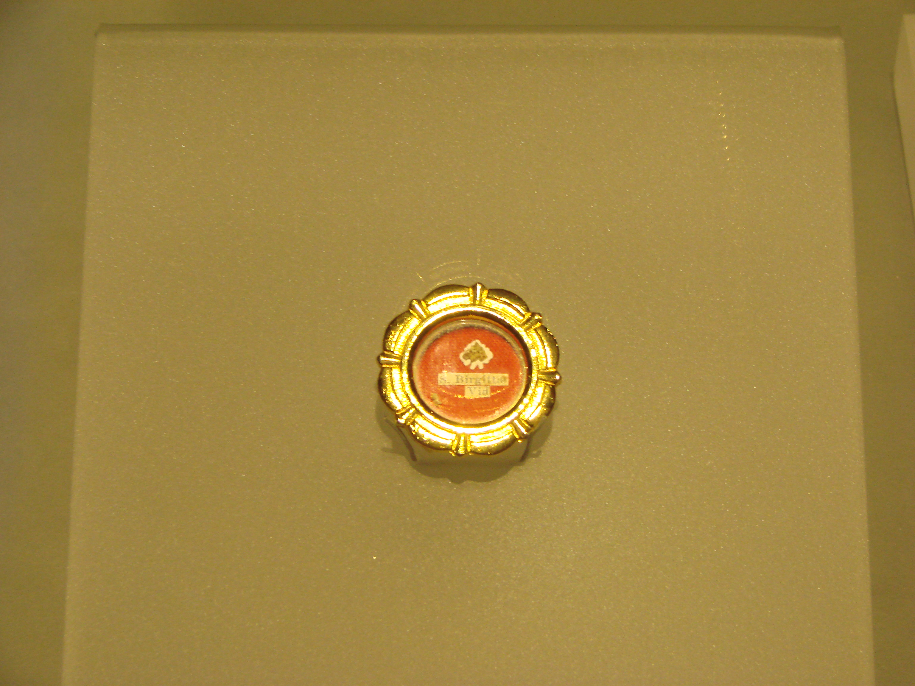 Saint Bridget's reliquary, holding a piece of her bone.Given to the Turku Cathedral Museum by the head of the Bridgettine nuns.